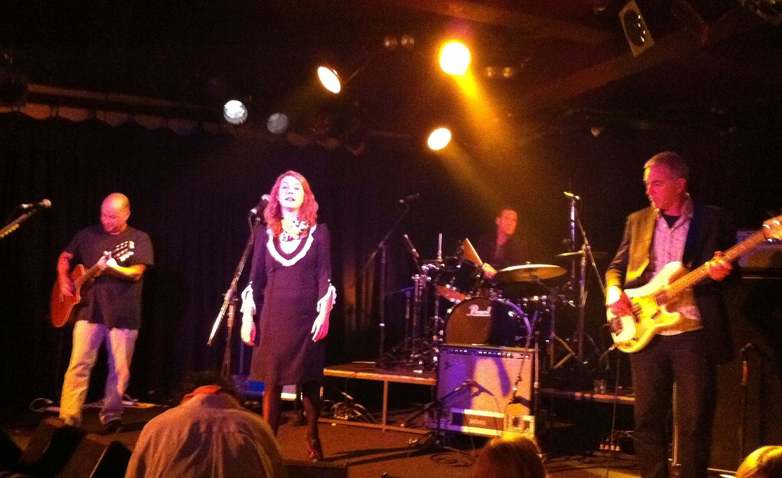 Frente! reformed for Punters Club Reunion shows at the Corner Hotel, Melbourne. From left: Simon Austin, Angie Hart, Pete Luscombe and Bill McDonald.